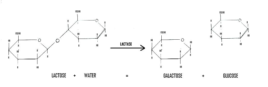 Lactase